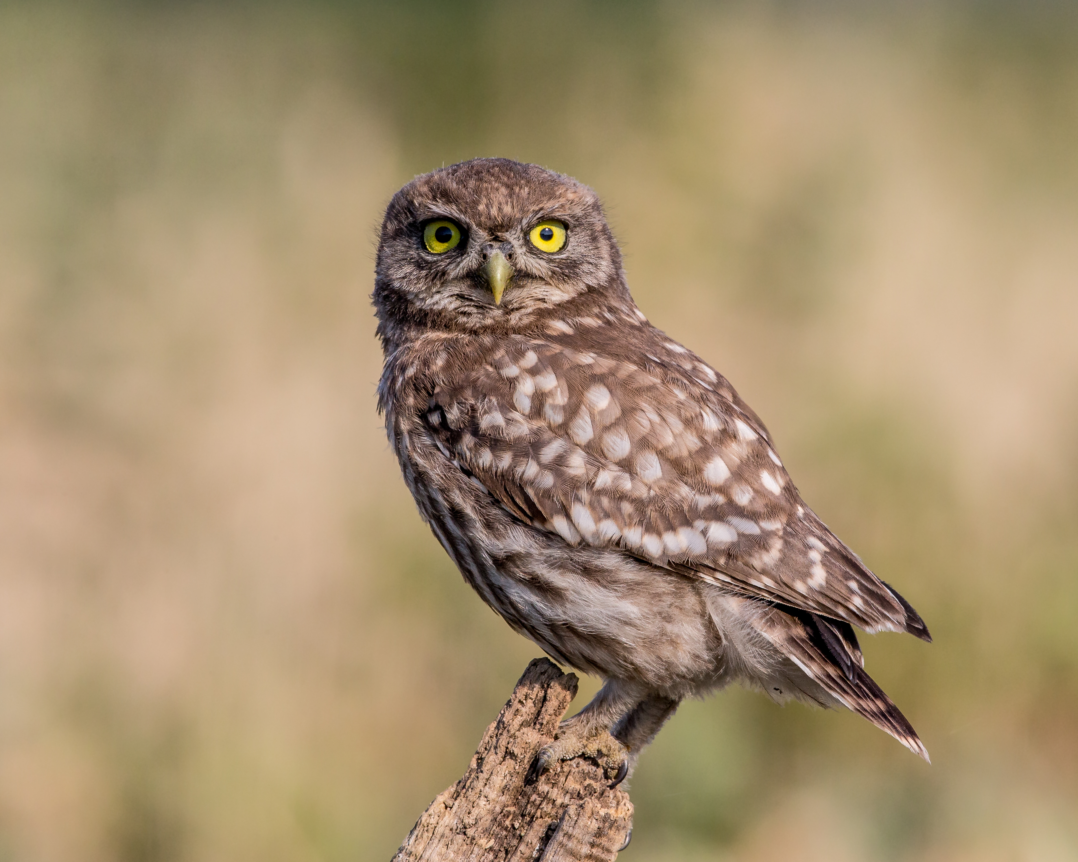 This Little Owl sat for me for quite a time in the early morning - a little beauty! Taken in Hungary.